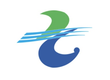 Flag of Sotogahama Aomori